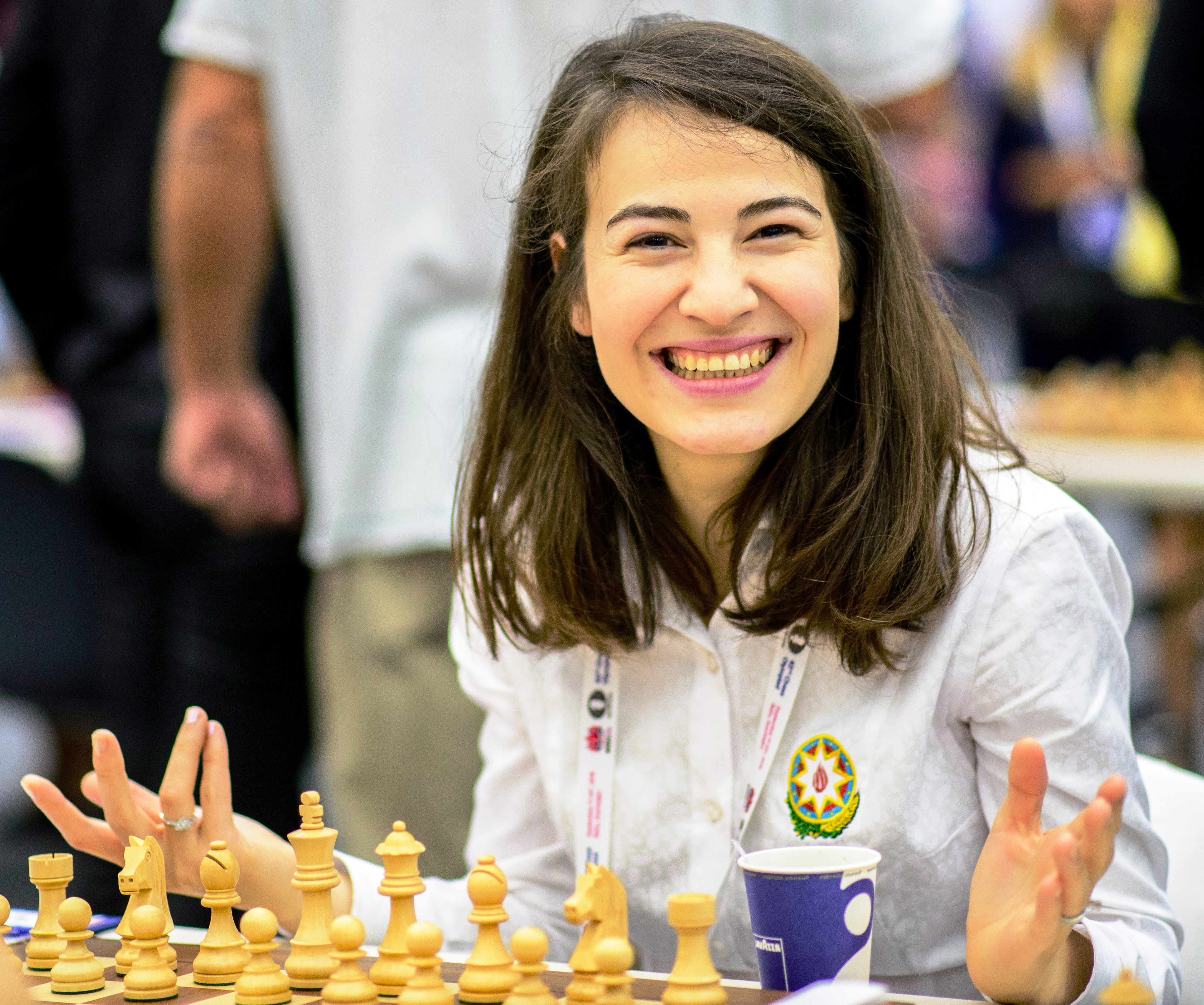 Mamedjarova Turkan